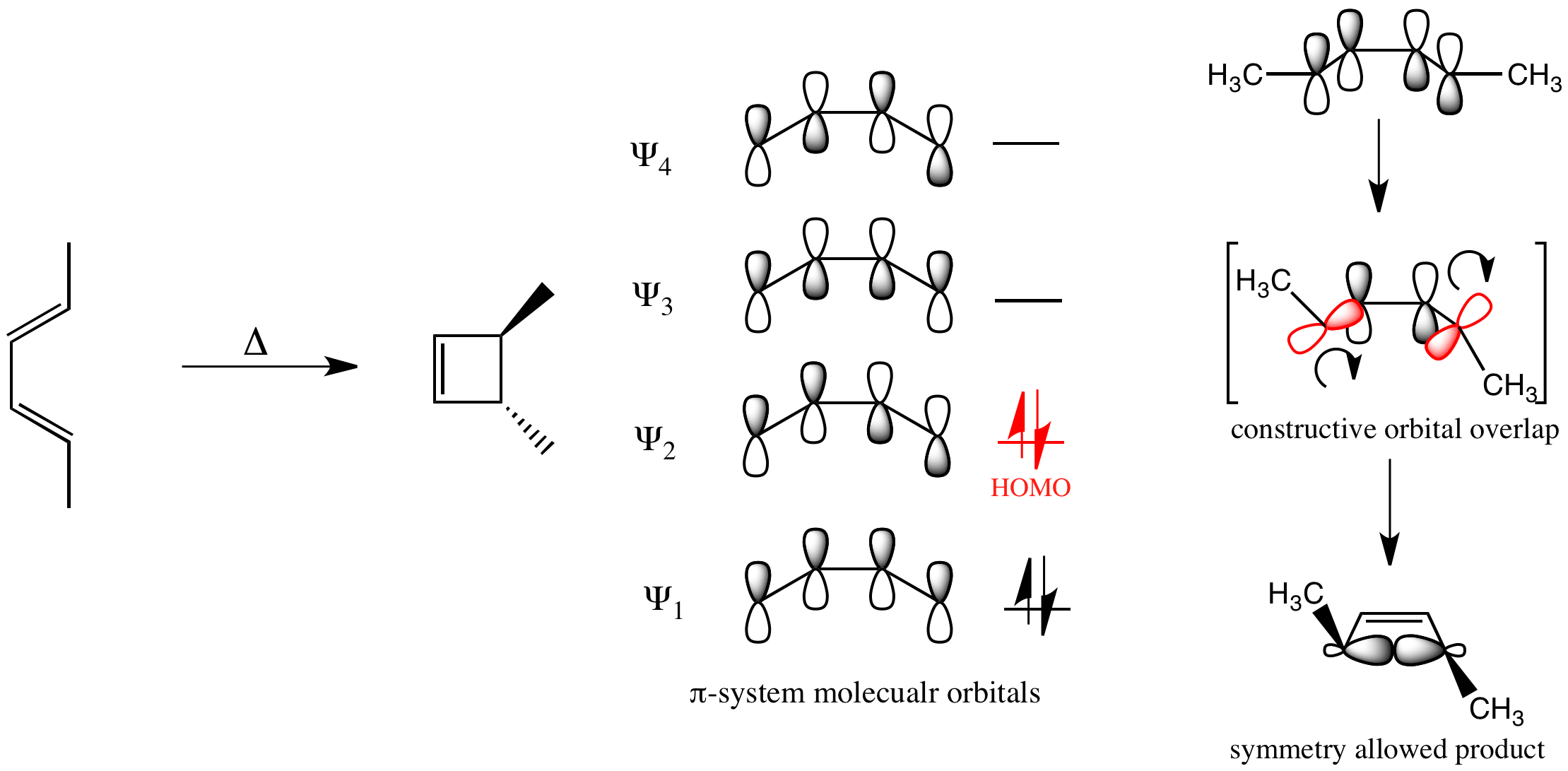 Diagram showing the FMO picture of the WH rules for 4n electron electrocyclization under thermal control.